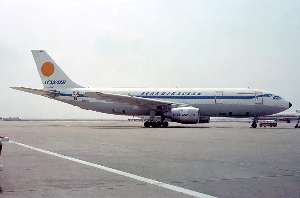 Scanair Airbus A300B4-120 LN-RCA at Faro Airport